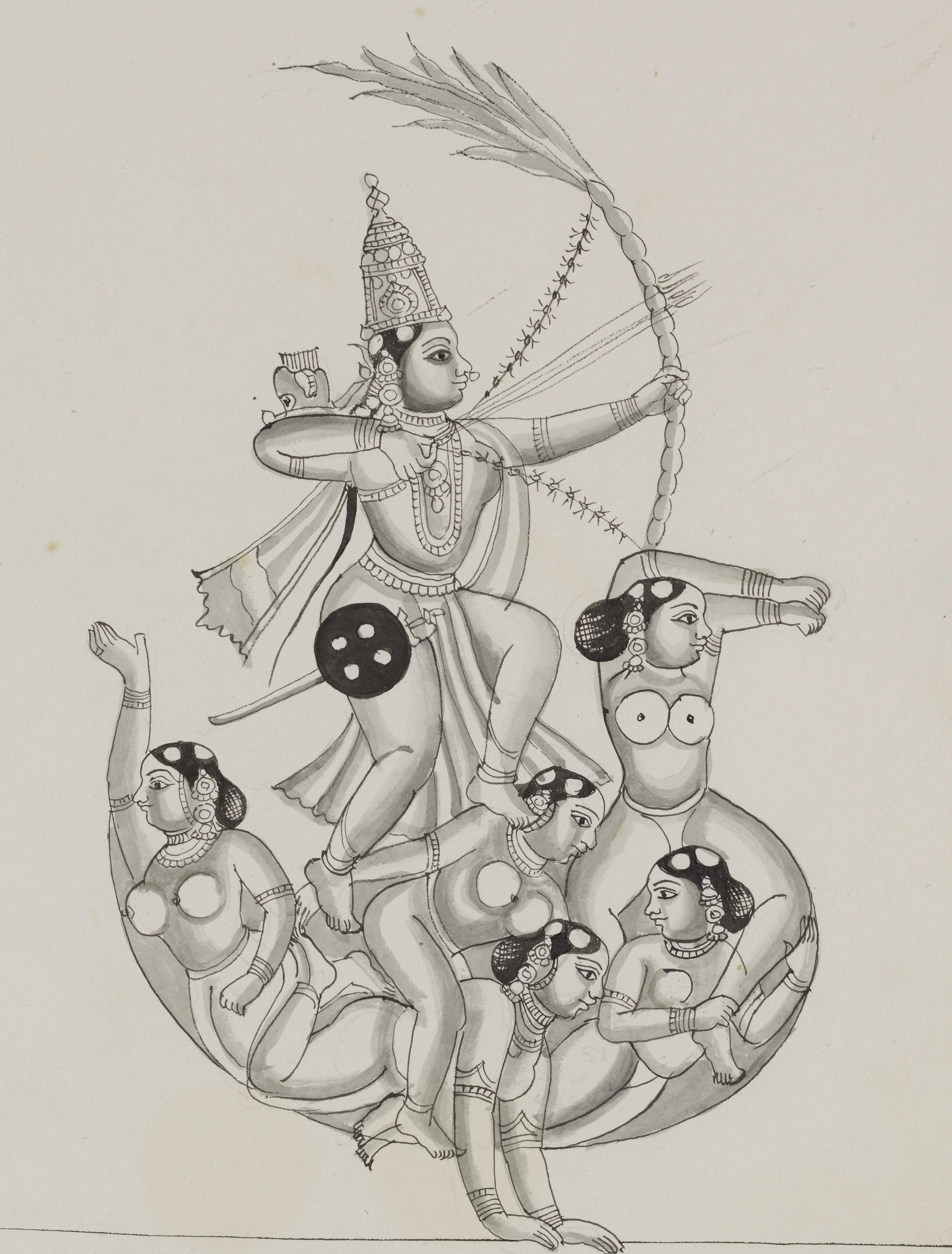 "Rati, wife of Káma. Her vehicle here is a bird (goose?), which is formed by five intertwined female figures. Rati stands poised to shoot fire arrows (pañcaśara) from a sugar-cane bow (ikṣukodaṇḍa) of which the string is made of bees (madhukara) Attached to her side, khaḍga and kheṭaka are shown. Dated and inscribed."